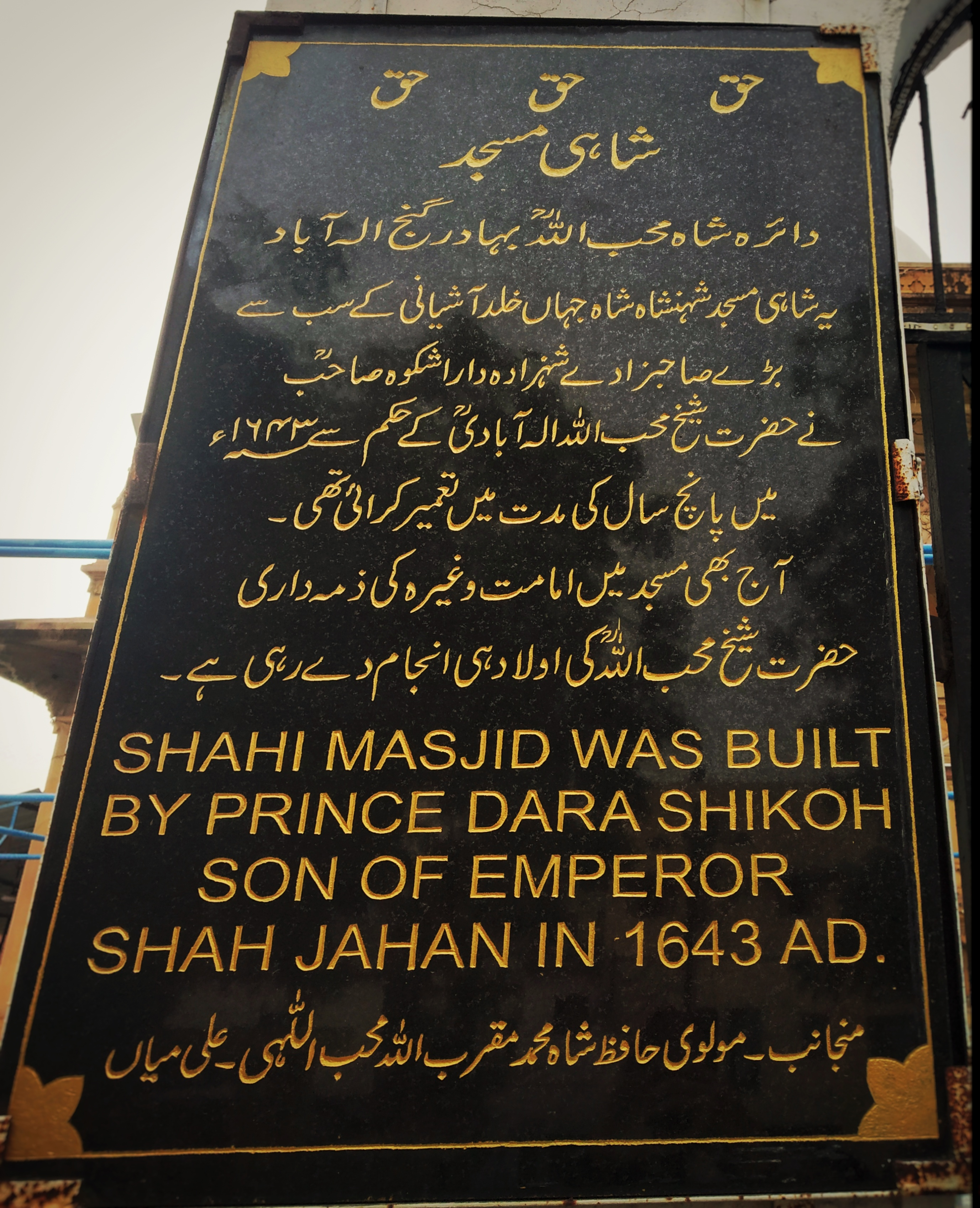 शाही मस्जिद इलाहाबाद